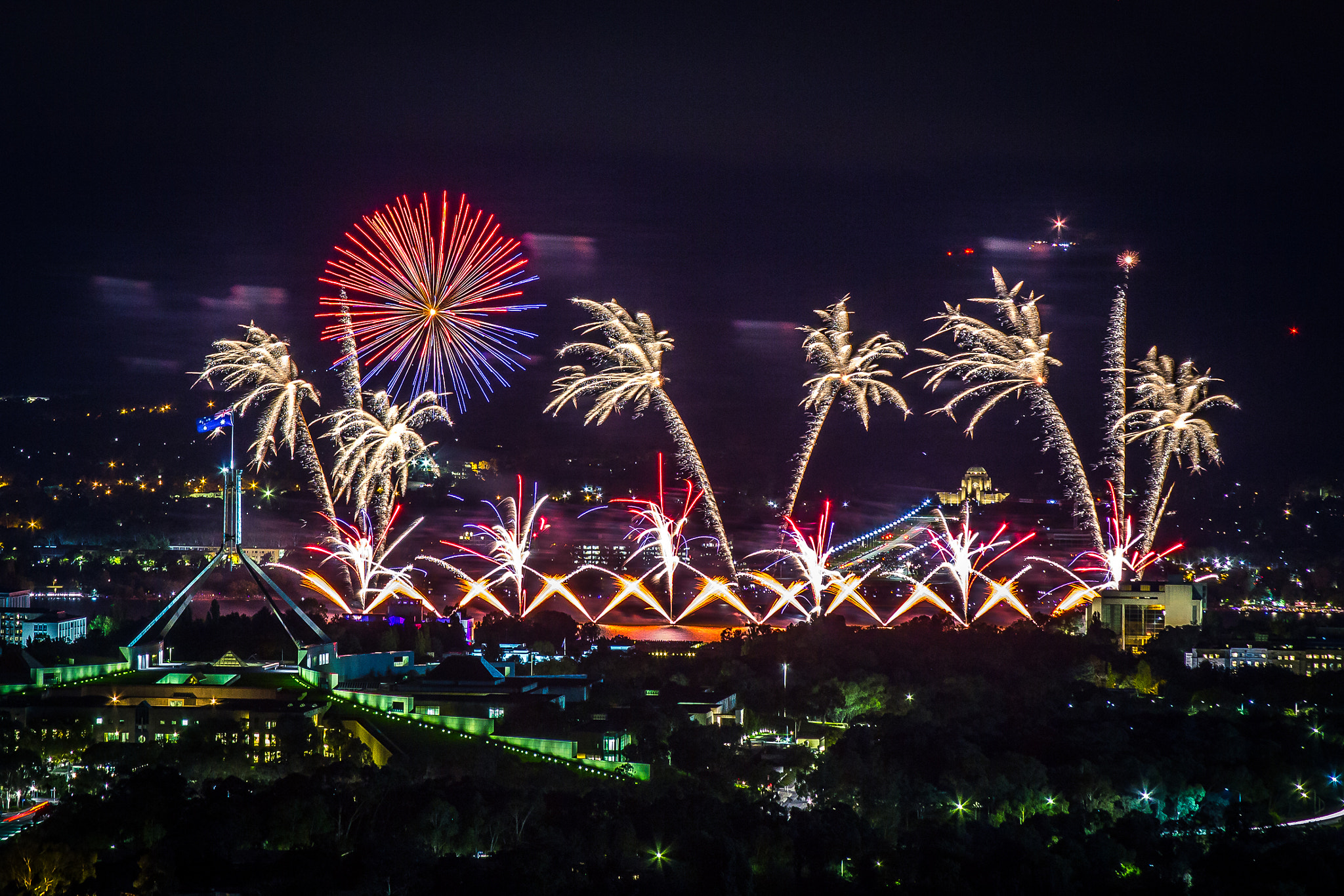 500px provided description: Fireworks exploding above Lake Burley Griffin for Skyfire 2017 in Canberra, Australia. [#show ,#lake ,#city ,#colour ,#orange ,#pink ,#dark ,#memorial ,#australia ,#festival ,#flag ,#fireworks ,#capital ,#skyfire ,#burley griffin ,#Landscape ,#Night ,#Canberra ,#Parliament ,#ACT]